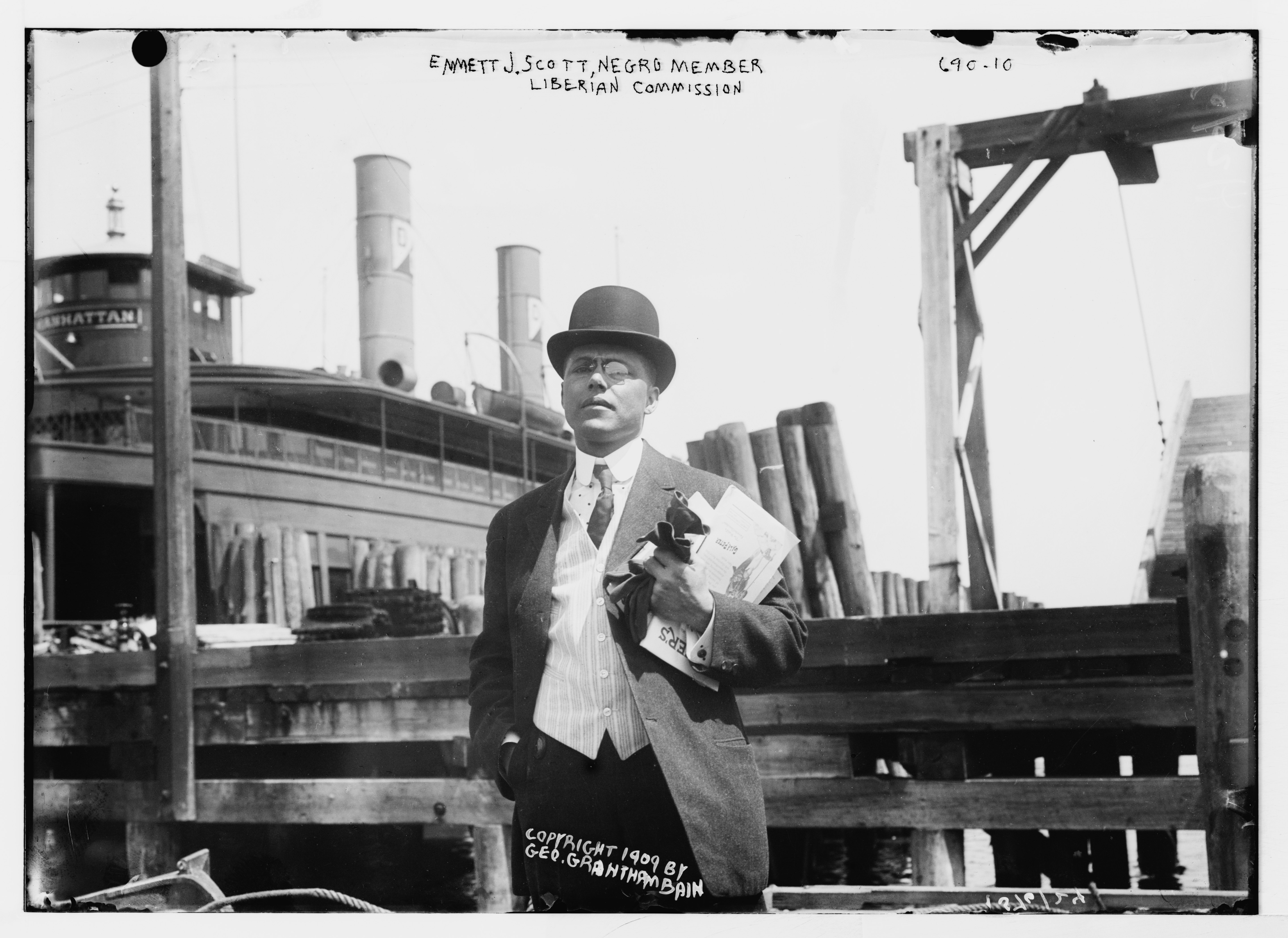 Title: Emmett J. Scott, Negro member of Liberian Commission, at boat dock, New York Abstract/medium: 1 negative : glass ; 5 x 7 in. or smaller.